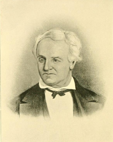 Portrait of Samuel May Williams